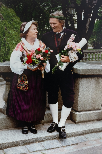 Hilding Mickelsson and Adéle, his wife, after he received the honorary doctorate in philosophy at Uppsala University in 1991.